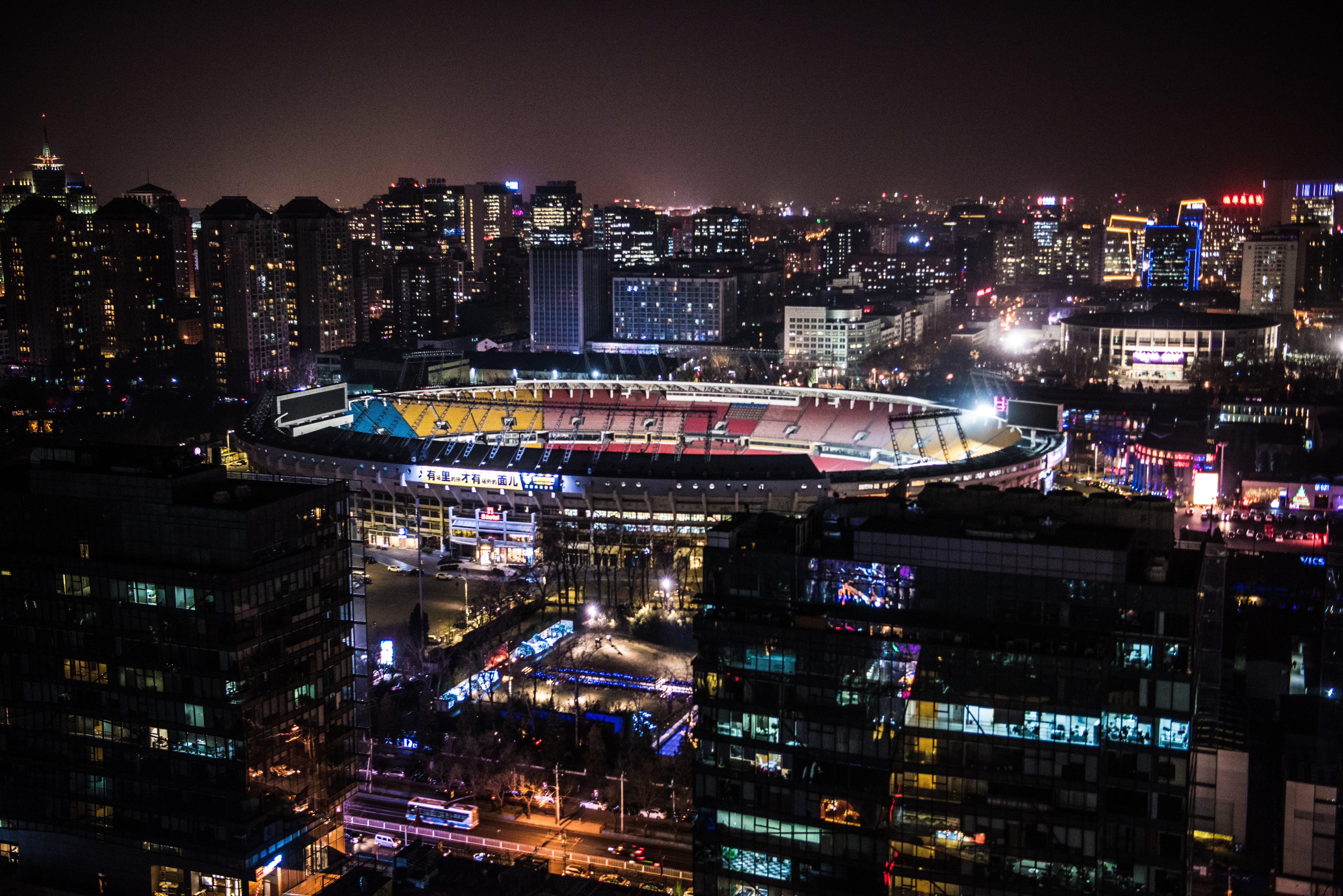 Beijing Workers' Stadium at night as viewed from Sanlitun